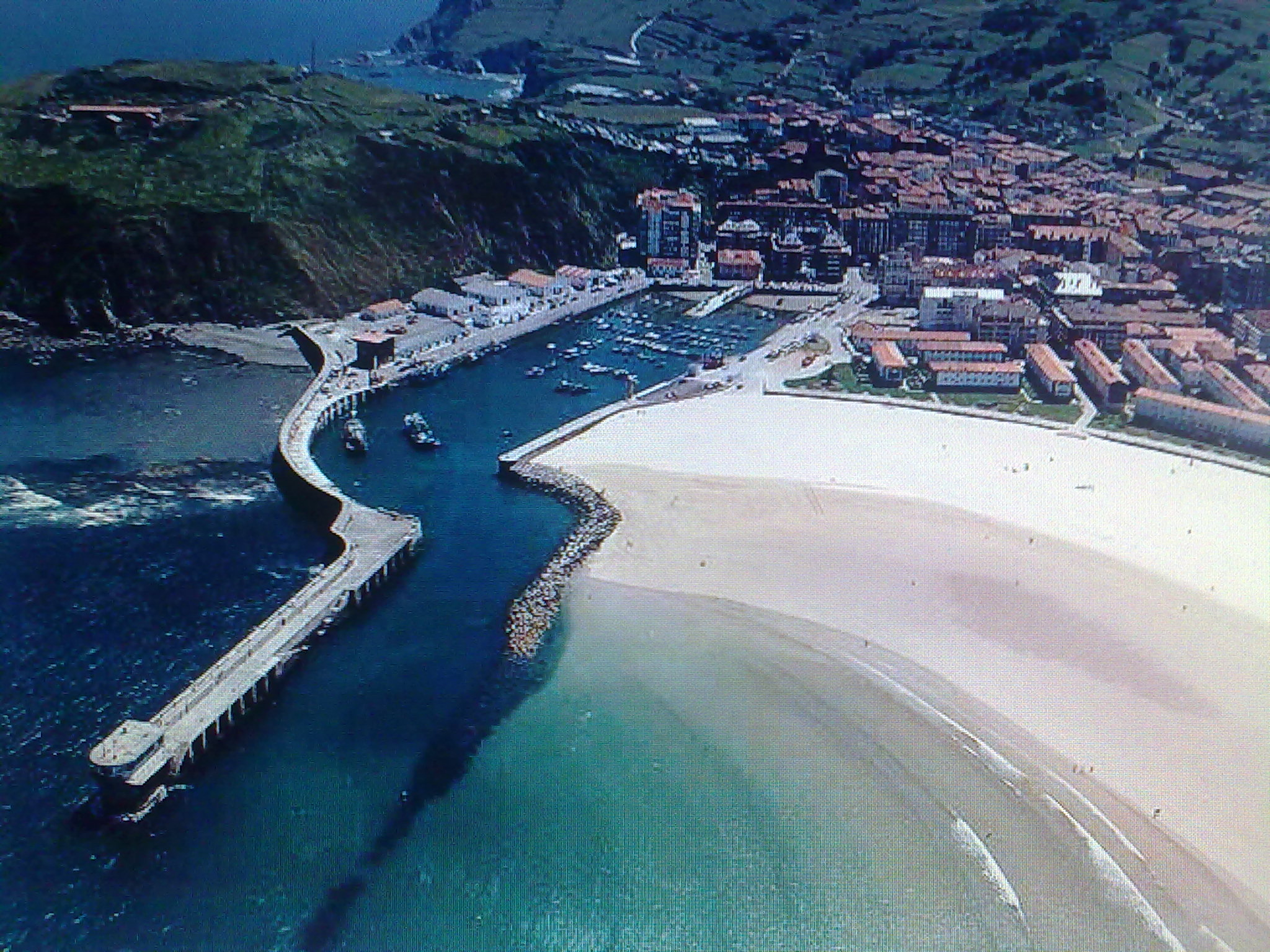 antiguo puerto de la villa de laredo